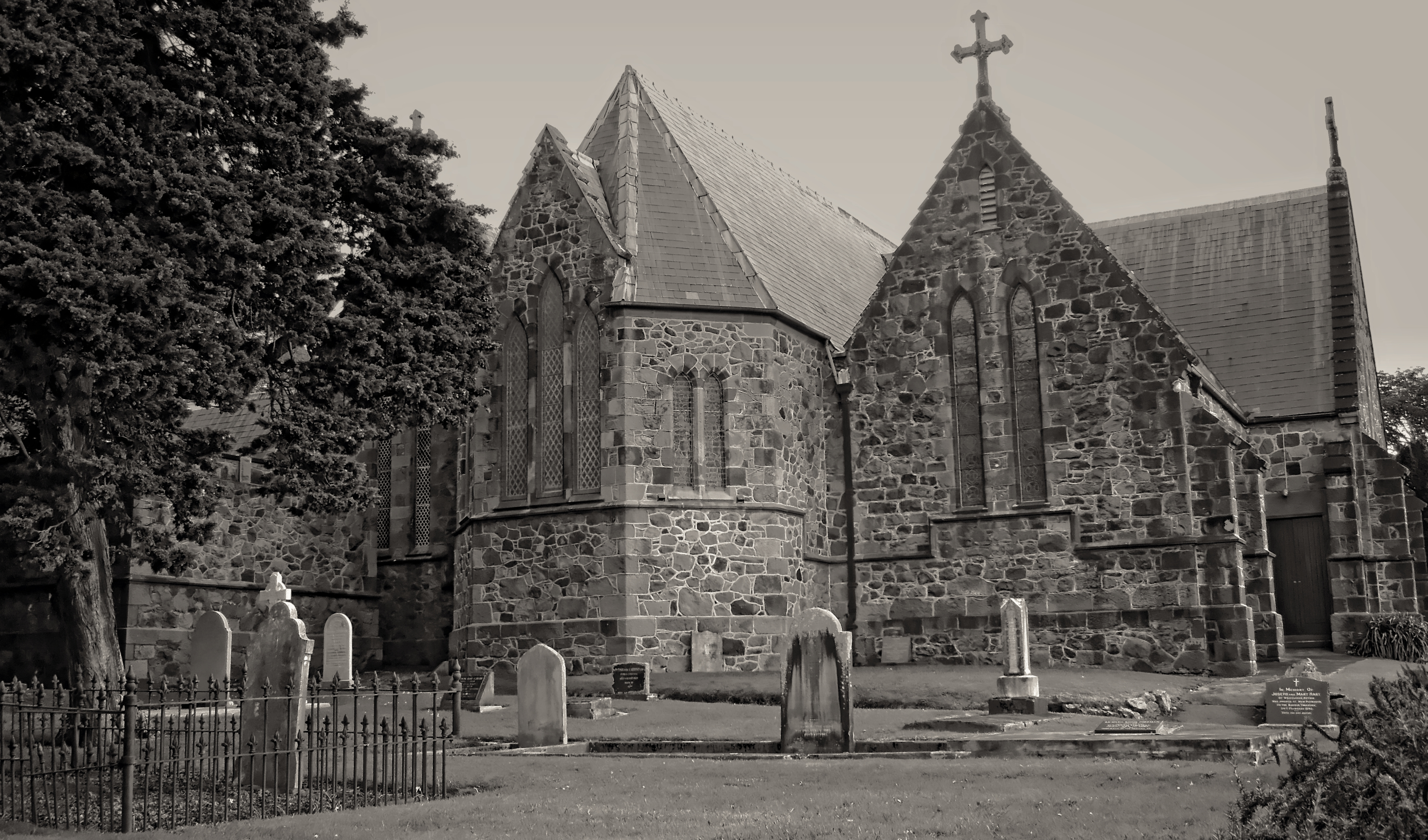 The Taranaki Cathedral of St Mary. New Plymouth. North Island. NZ